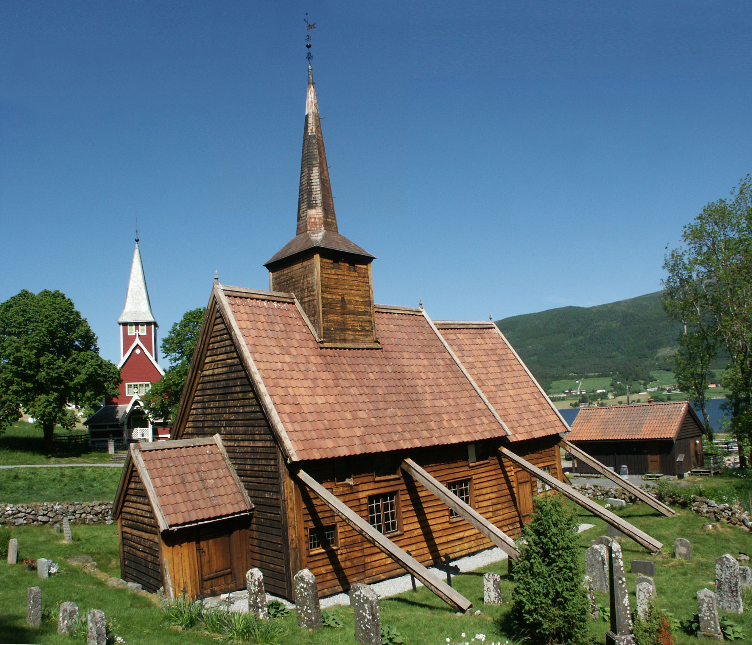 Rødven stave church, Rødvenfjorden, Rauma municipality, Møre og Romsdal county, Norway